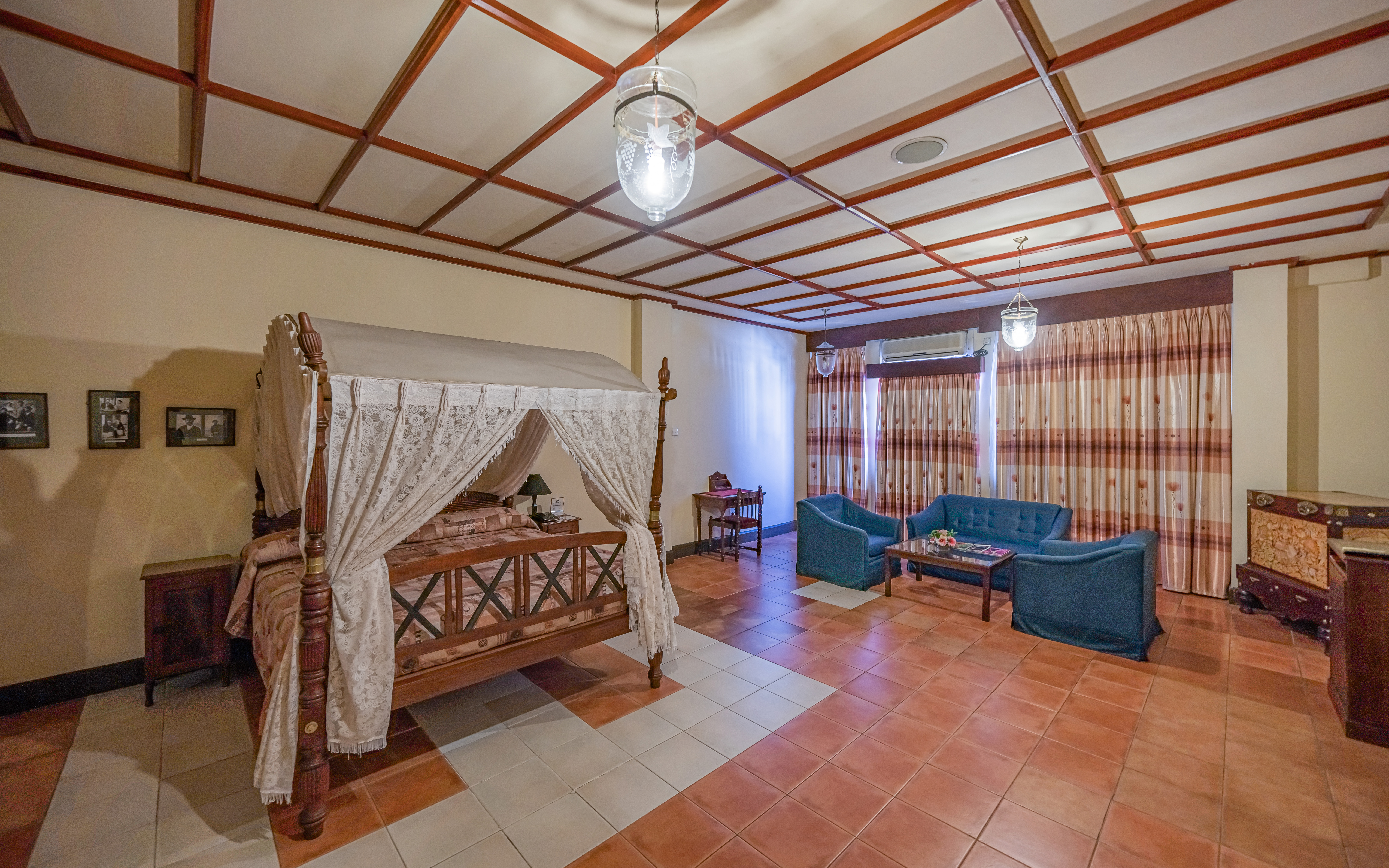 Anton Chekhov's suite room in the Grand Oriental Hotel in Colombo, Sri Lanka